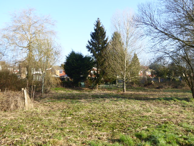 Hempstead Meadow is a Local Nature Reserve in Uckfield in East Sussex.